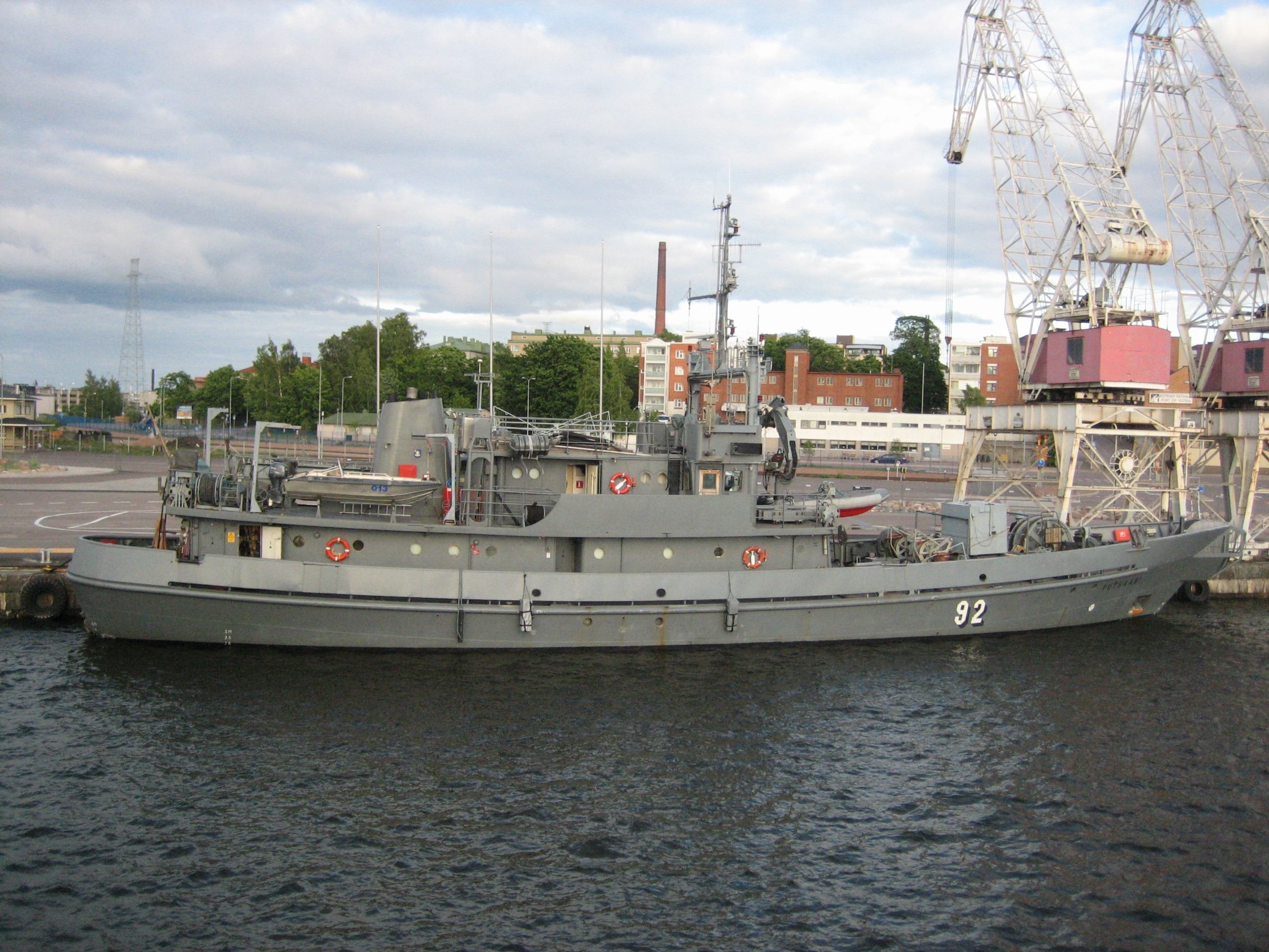 Finnish Navy cable layer Putsaari at Port of Kotka.